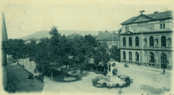 The Allee (avenue) wit the old festival hall Harmonie and the Kaiser Wilhelm monument in Heilbronn. Postcard